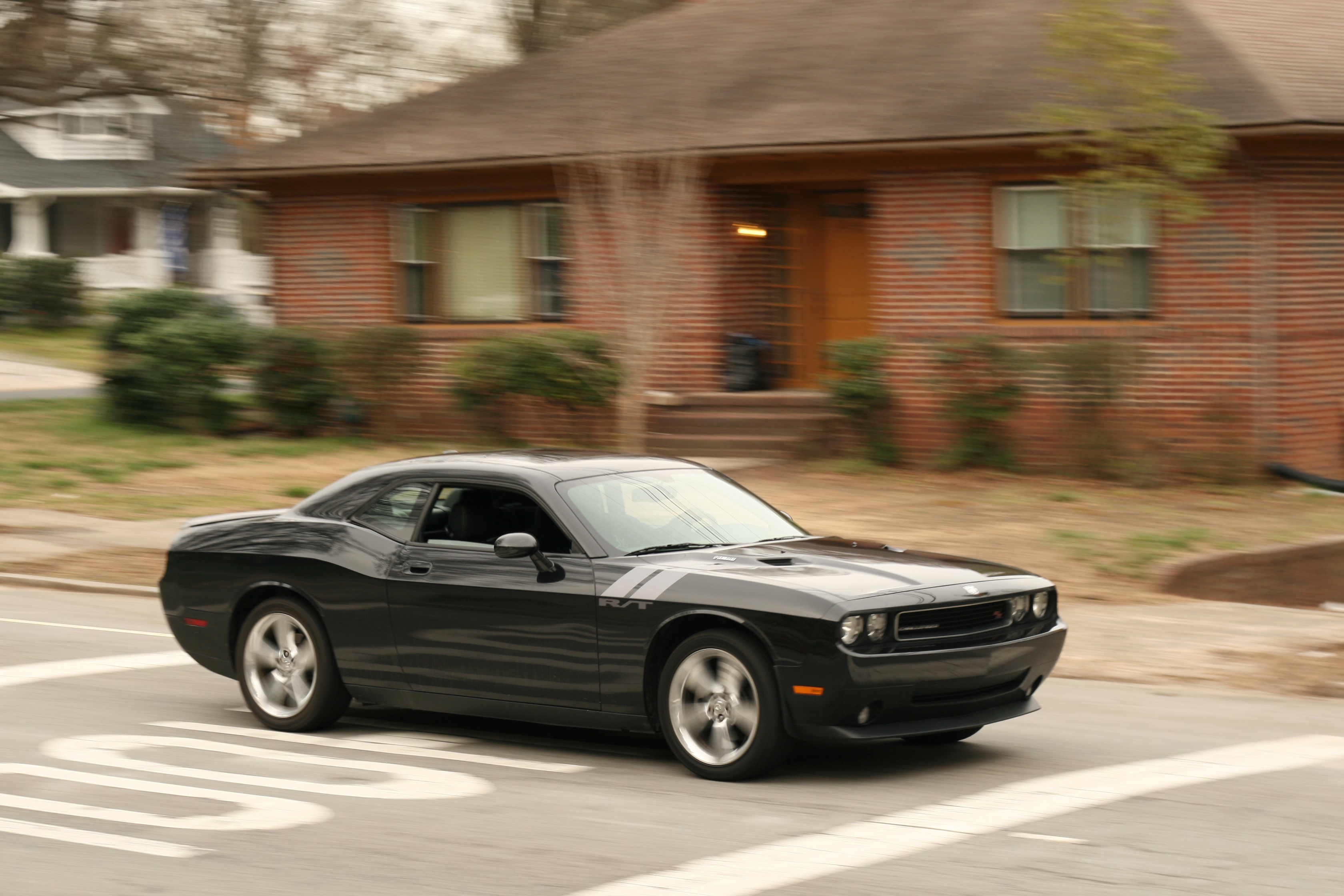 A black Dodge Challenger R/T southbound on North Gregson Street in Durham, North Carolina.